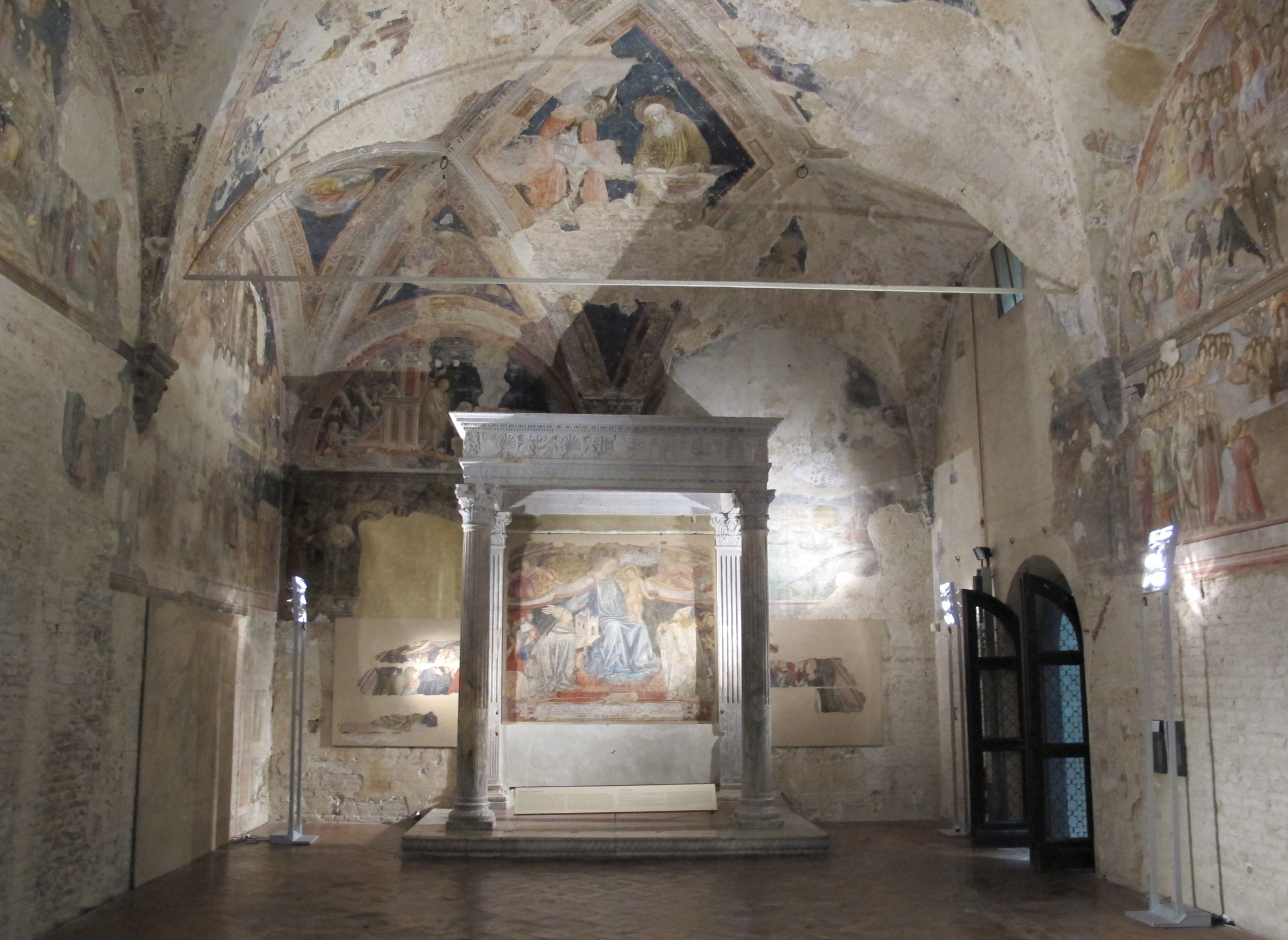 Santa Maria della Scala Hospital (Siena)